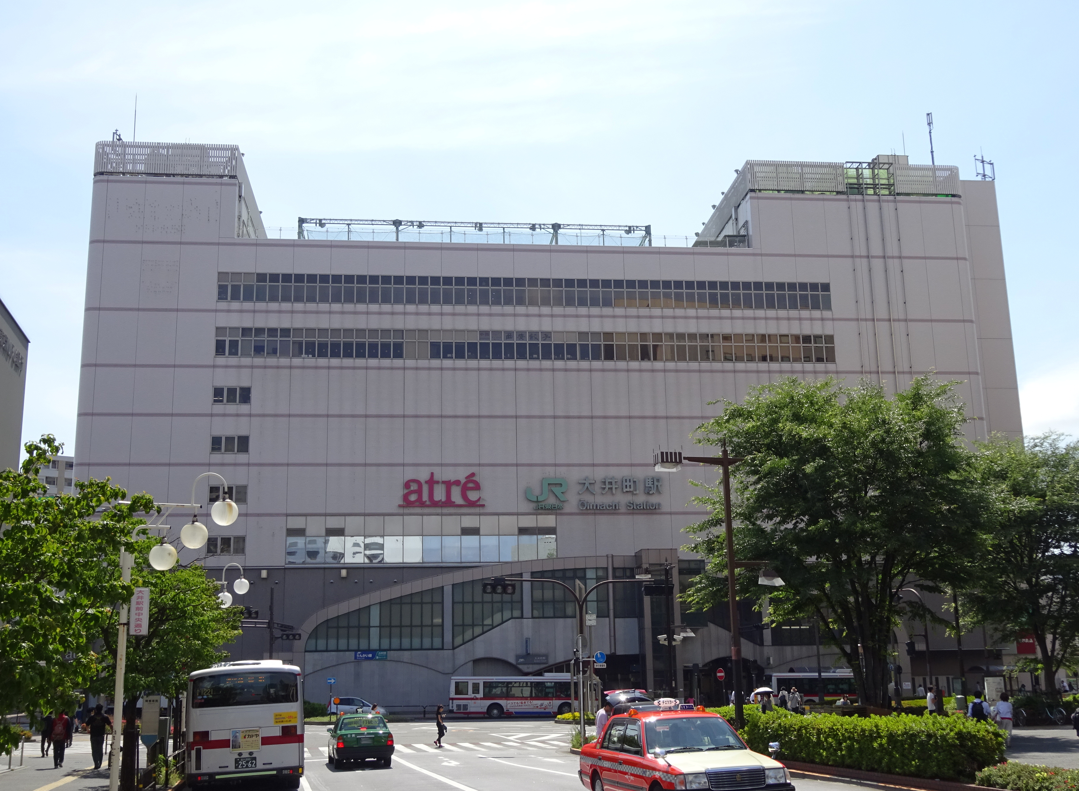 Ōimachi Station